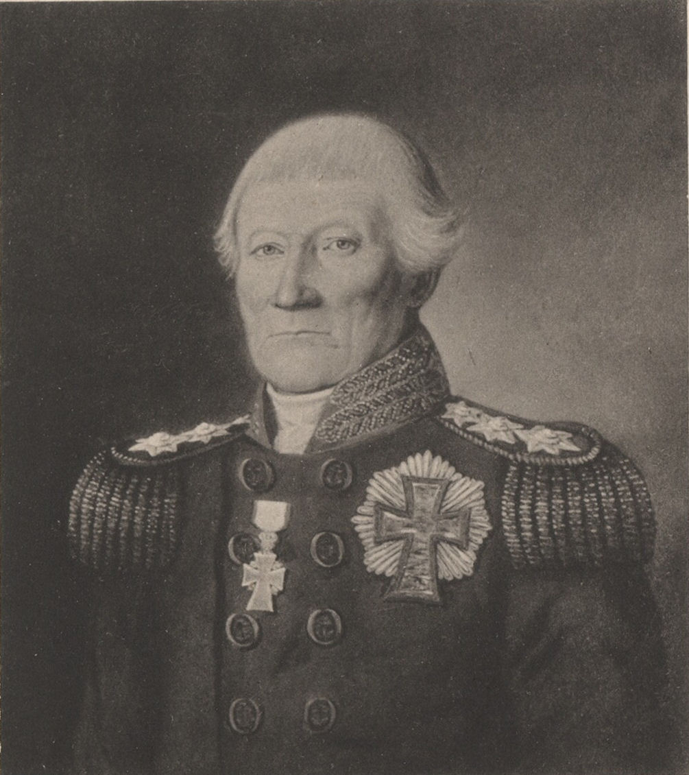 Steen Andersen Bille (1751-1833), Danish Admiral and Privy Councillor